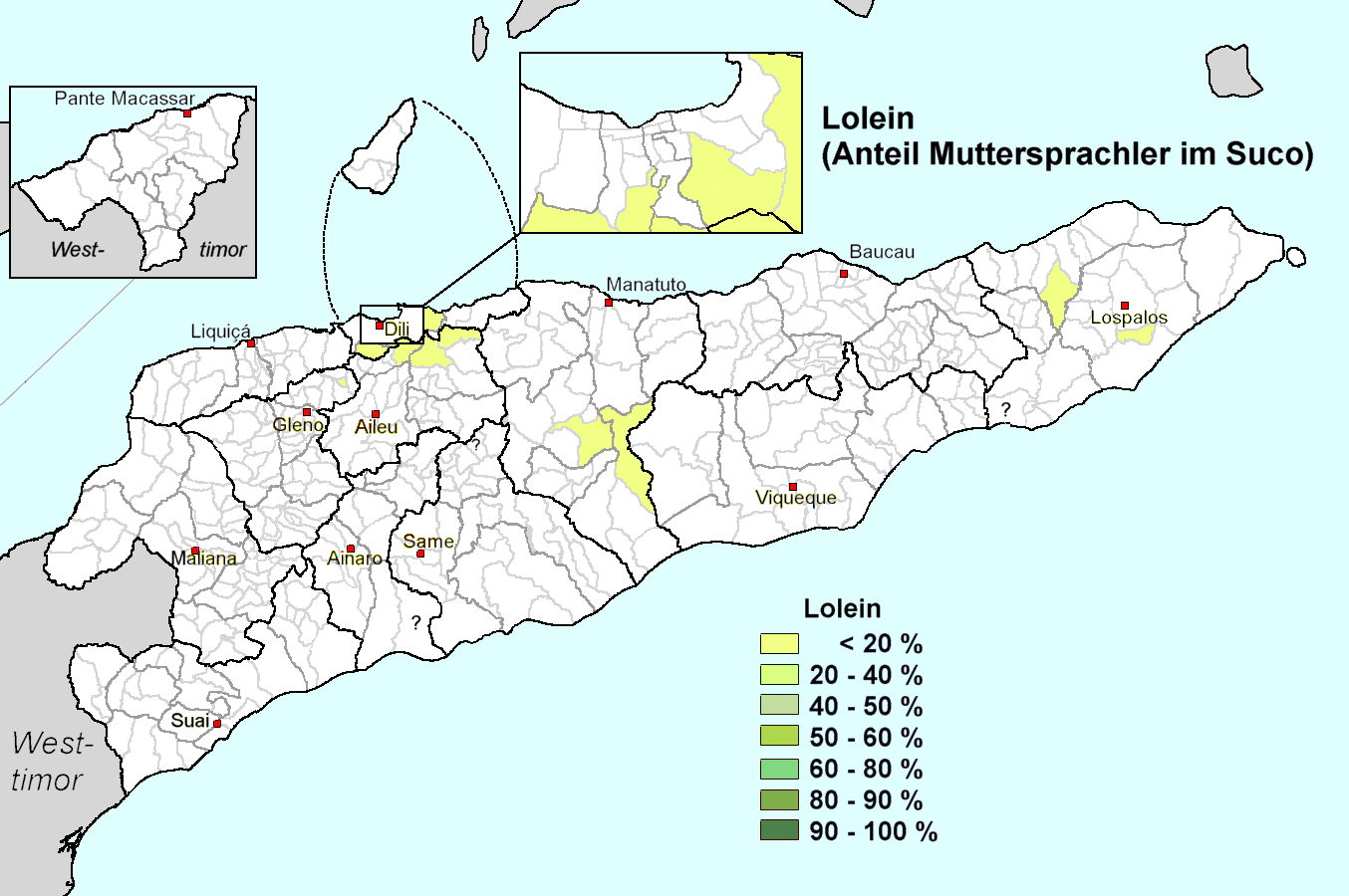 Percentage of people using Lolein as mother tongue in sucos of East Timor (Timor-Leste), according census 2010